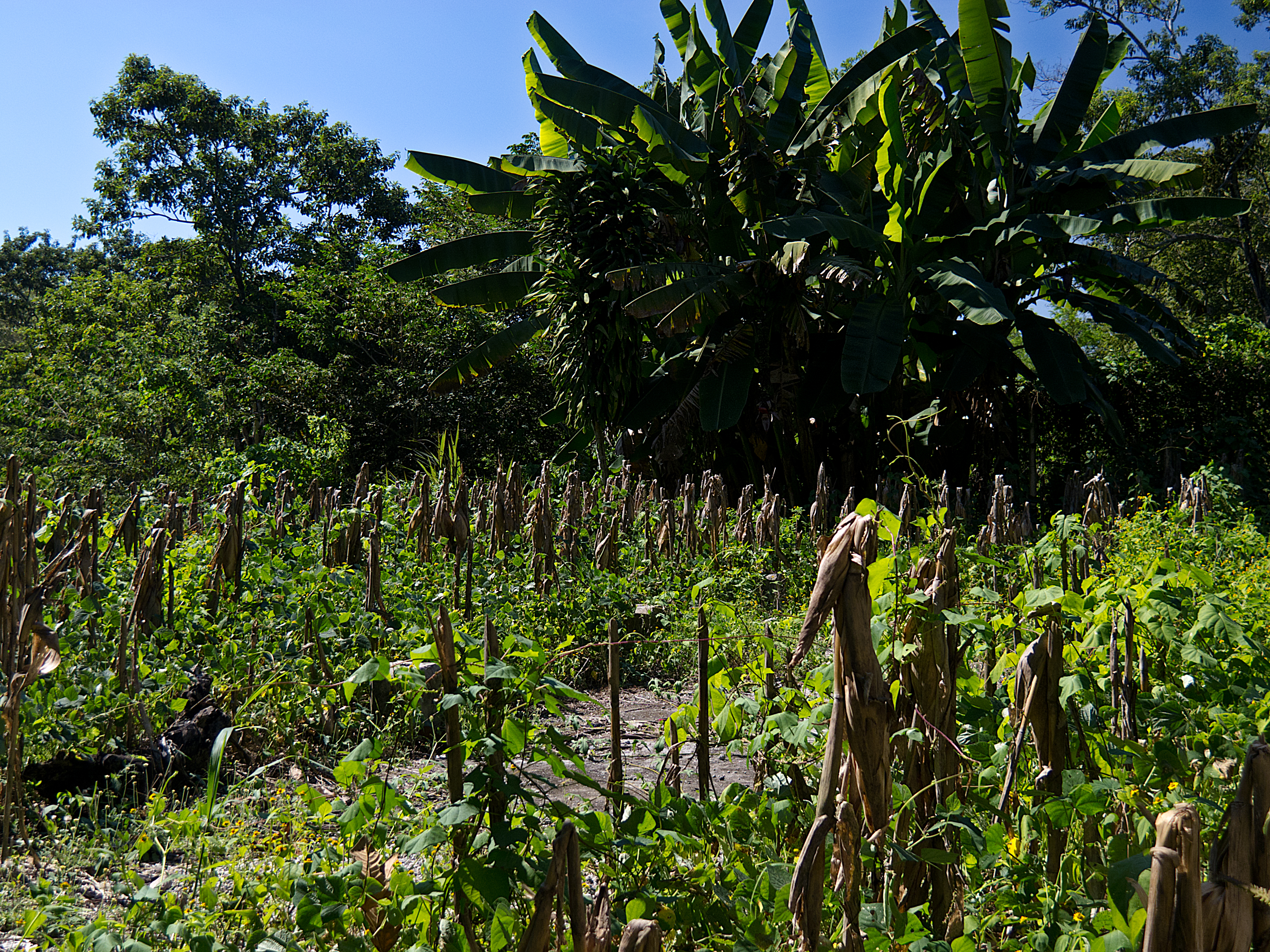 A typical Central American Milpa. (Note: the bananas in the background, although not native to Central America, are commonly found). Corn stalks have been bent, and left to dry (hence the dried cobs), and then beans are planted.